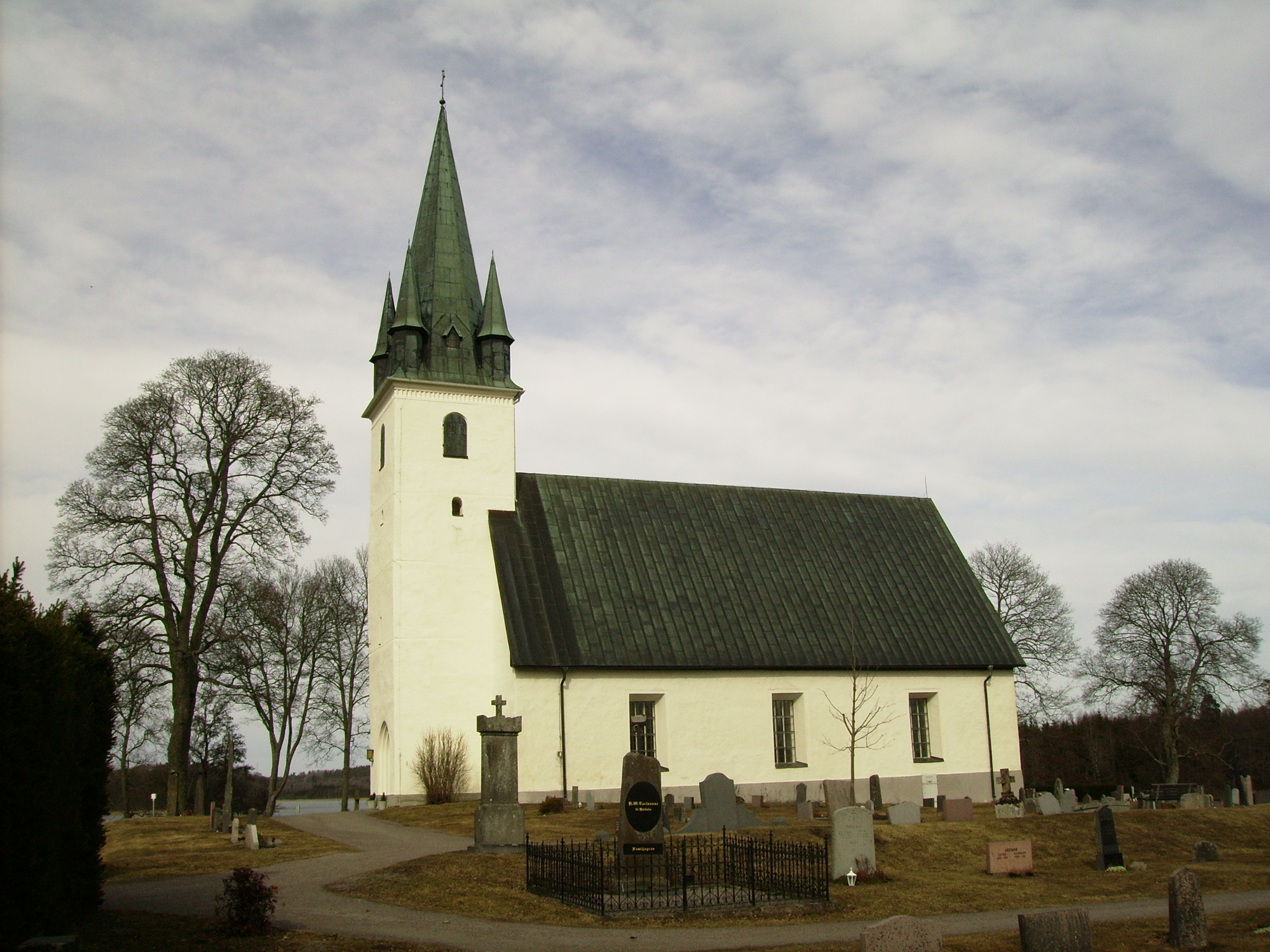 Picture of Frustuna church in Sweden, march 2009.